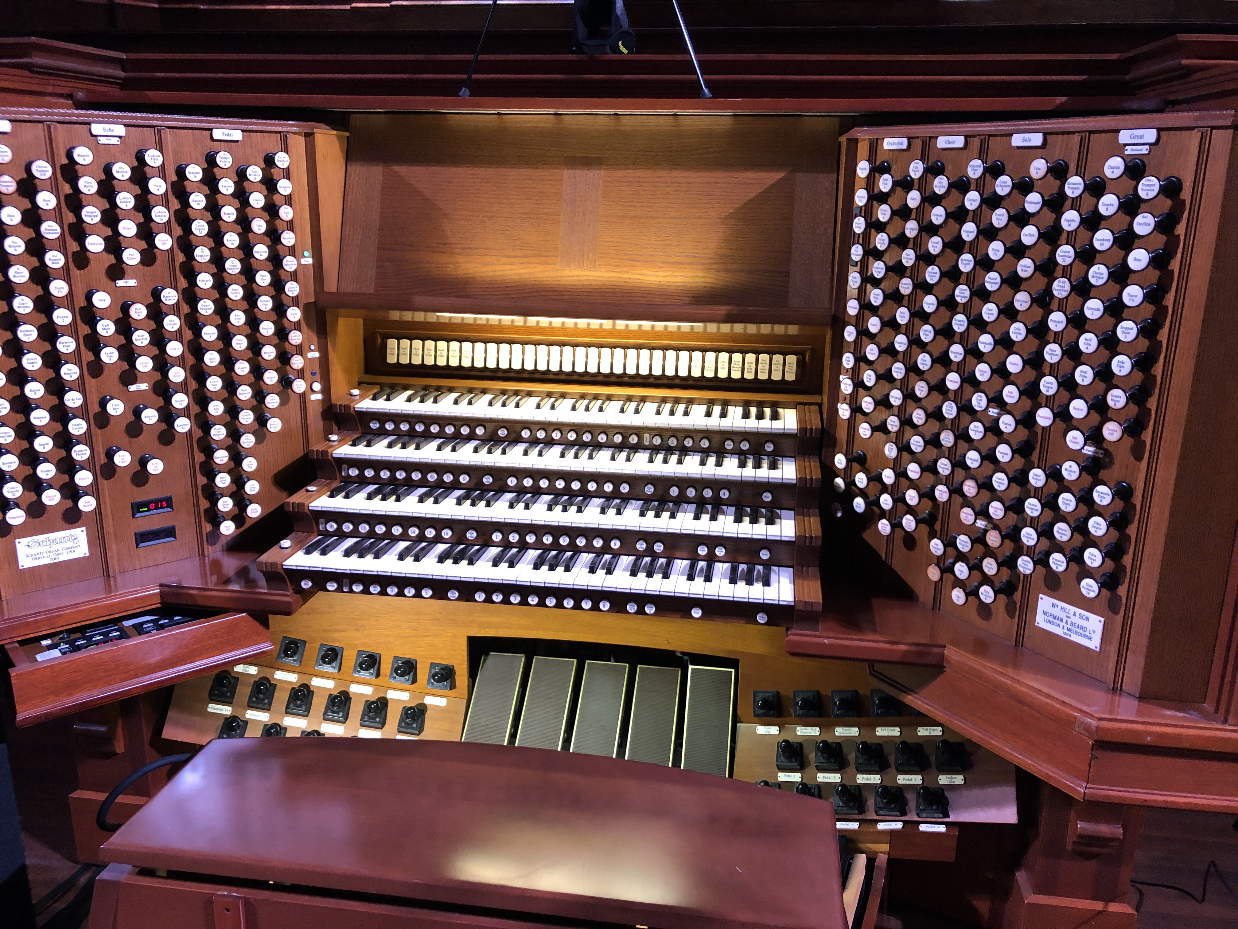 The Melbourne Town Hall Organ console as it was in 2019, after the schantz rebuild and upgrade.